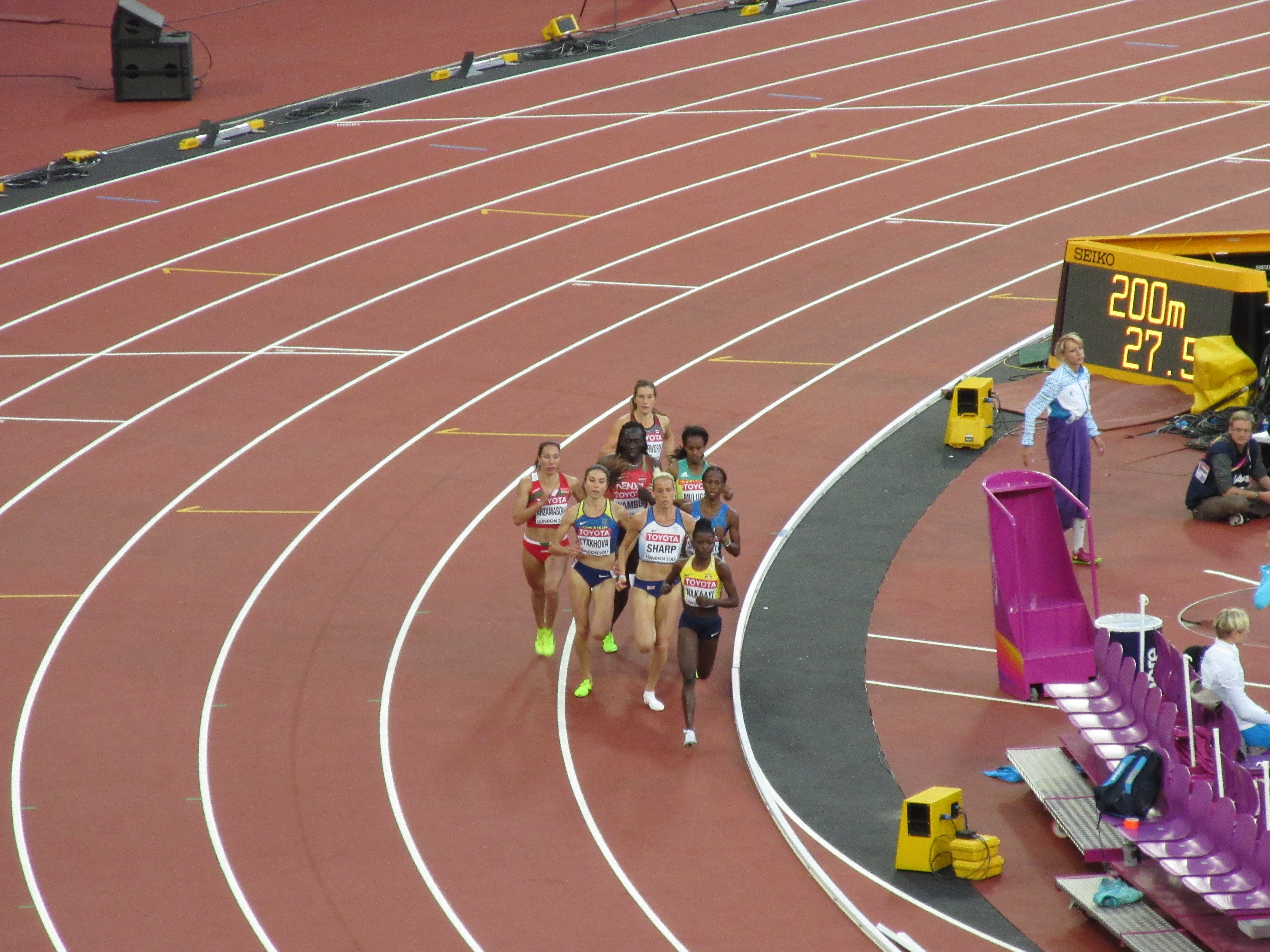 Lynsey Sharp currently in 2nd place